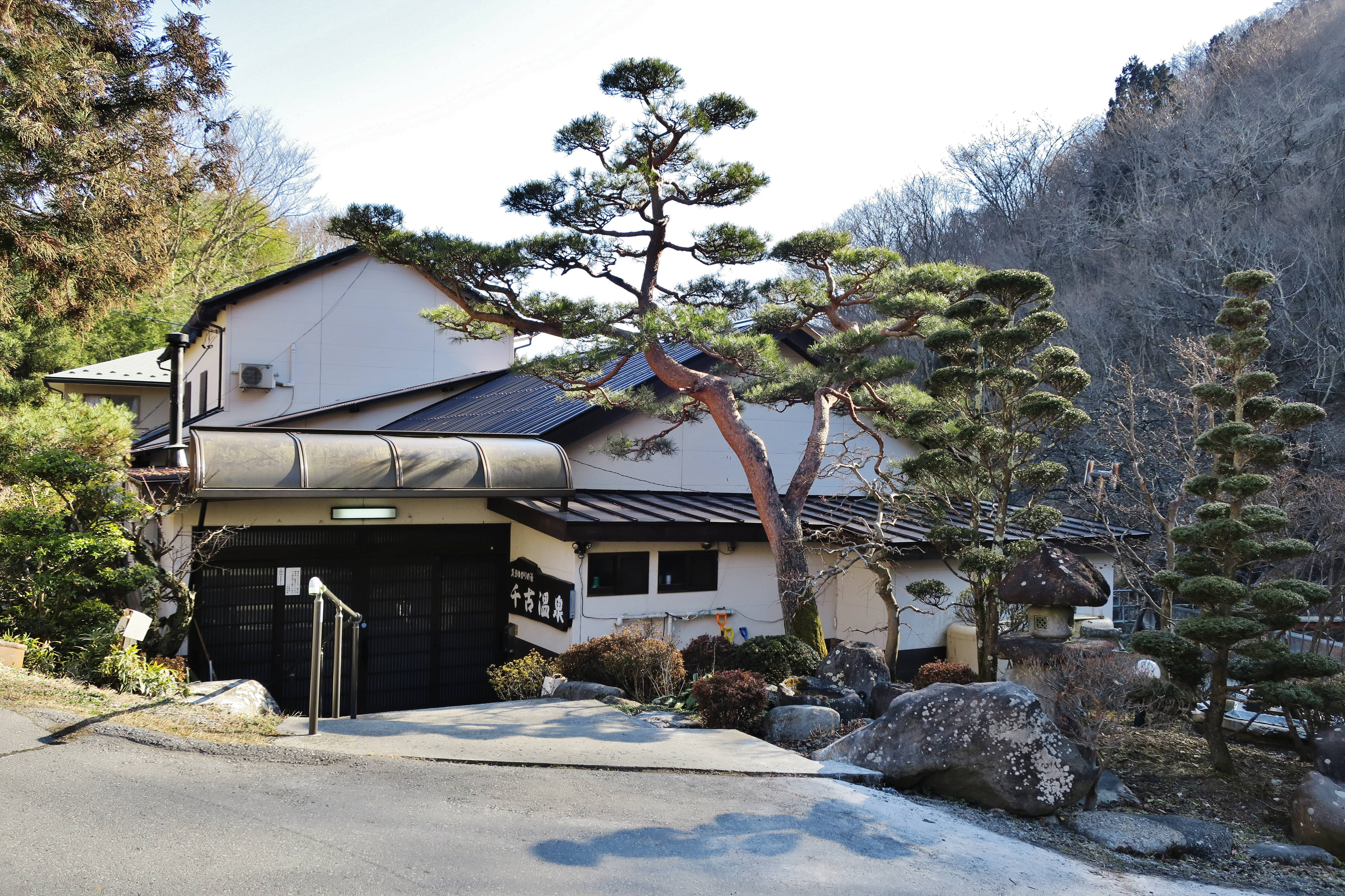 Senko Onsen.